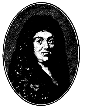 Philippe Quinault (1635-1688), French dramatist and librettist